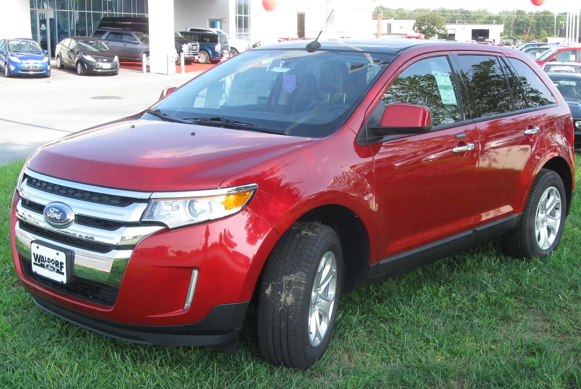 2011 Ford Edge photographed in Waldorf, Maryland, USA.